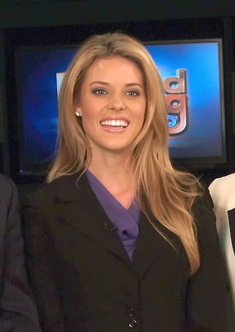 I personally took this photo of Miss California USA. You can see the rest of her photos on my website in June at